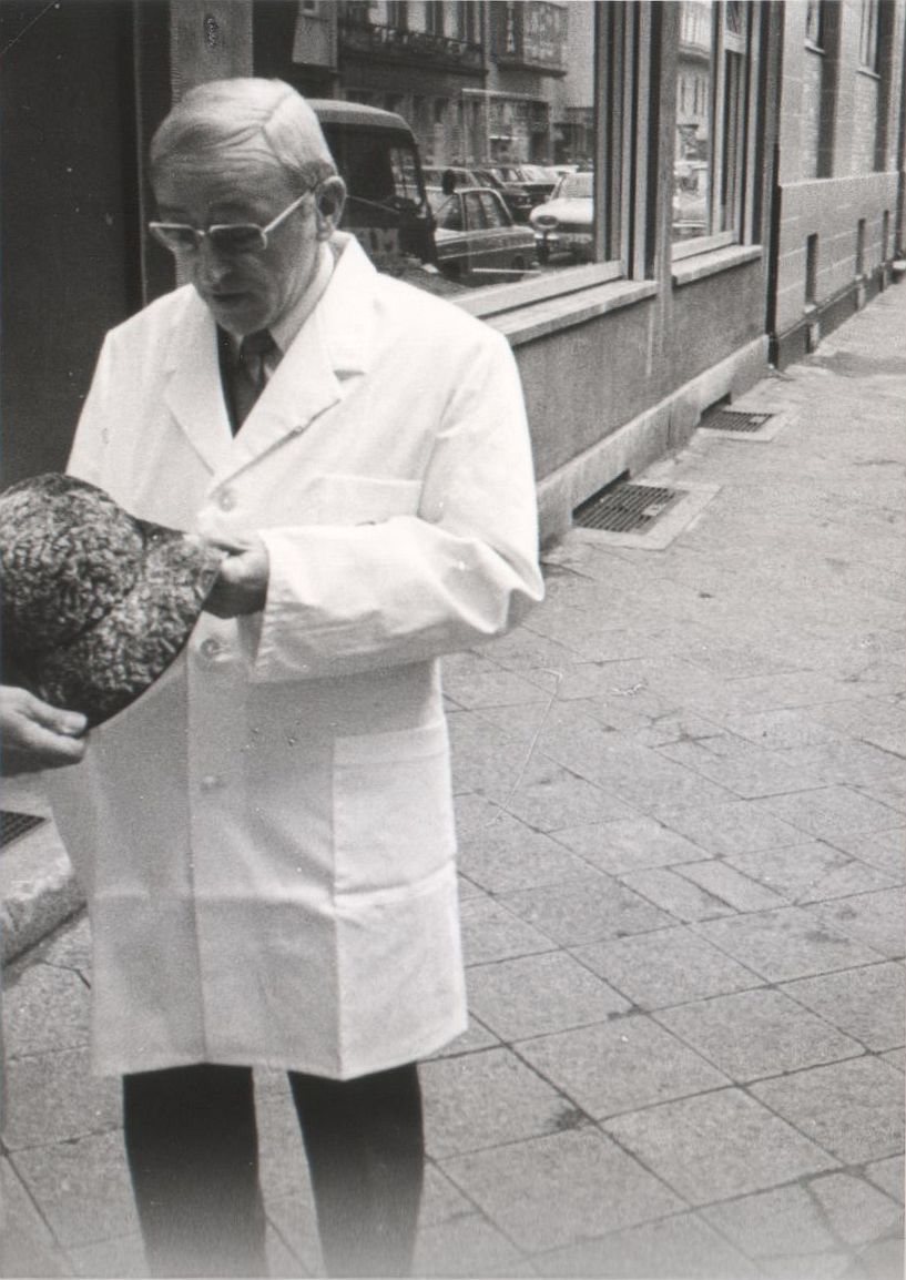 One of the photographs taken around or relating to the fur trade center Niddastrasse, Frankfurt am Main, Germany.